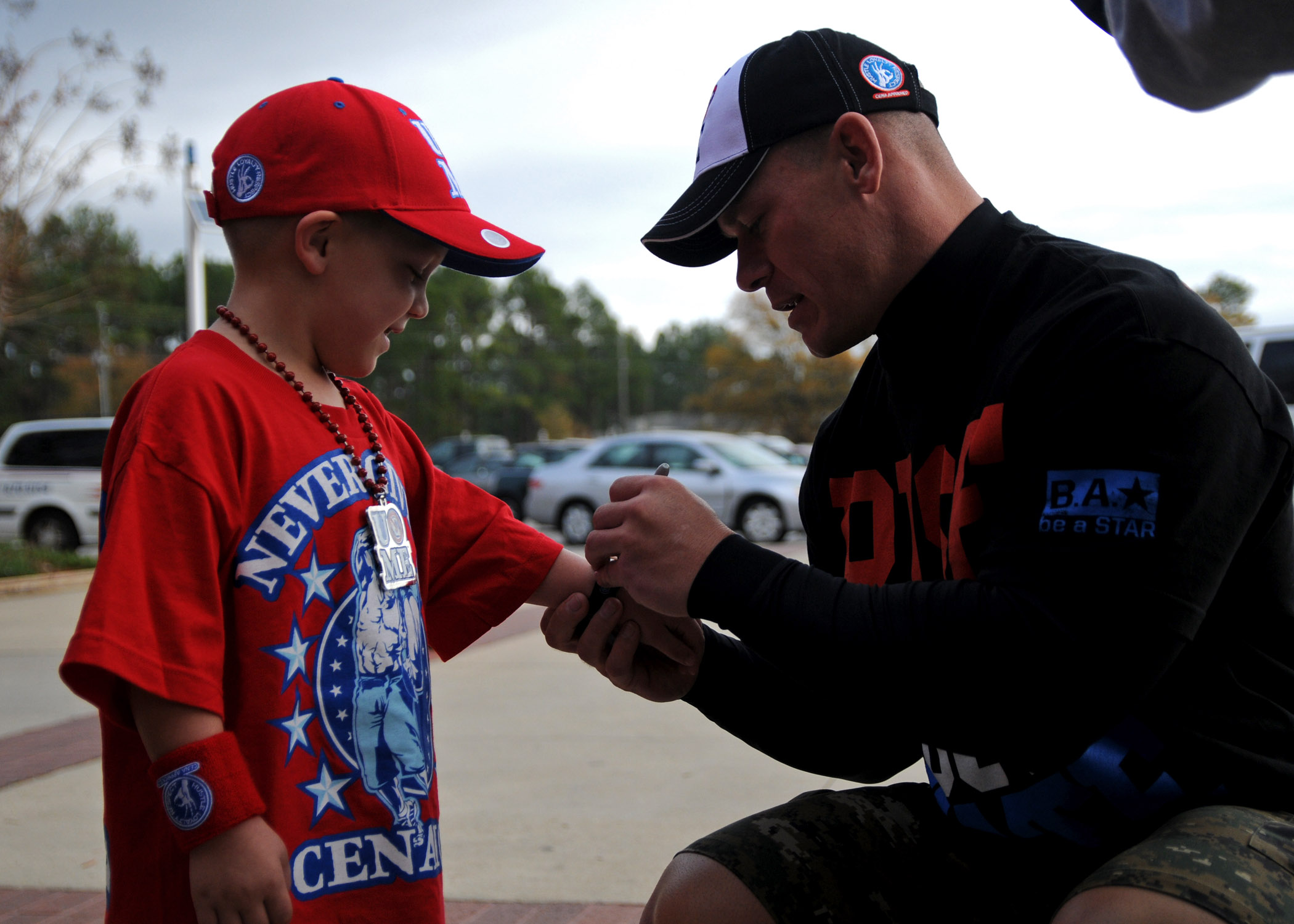 John Cena with a young fan in December 2011